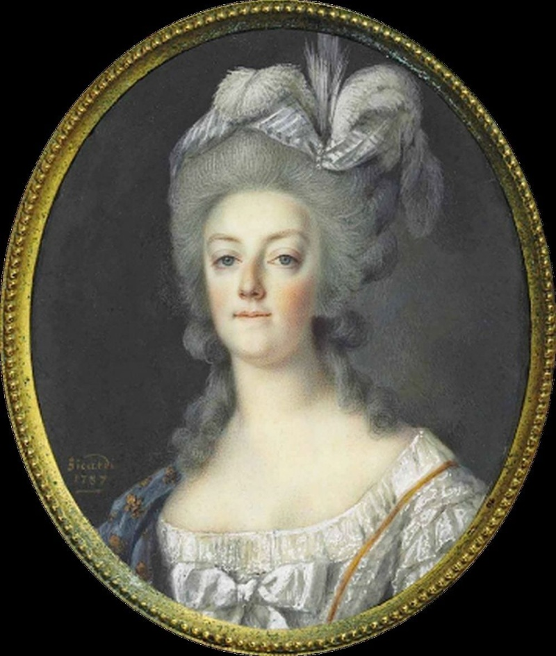 Portrait of Marie Antoinette (1755-1793), Queen of France.